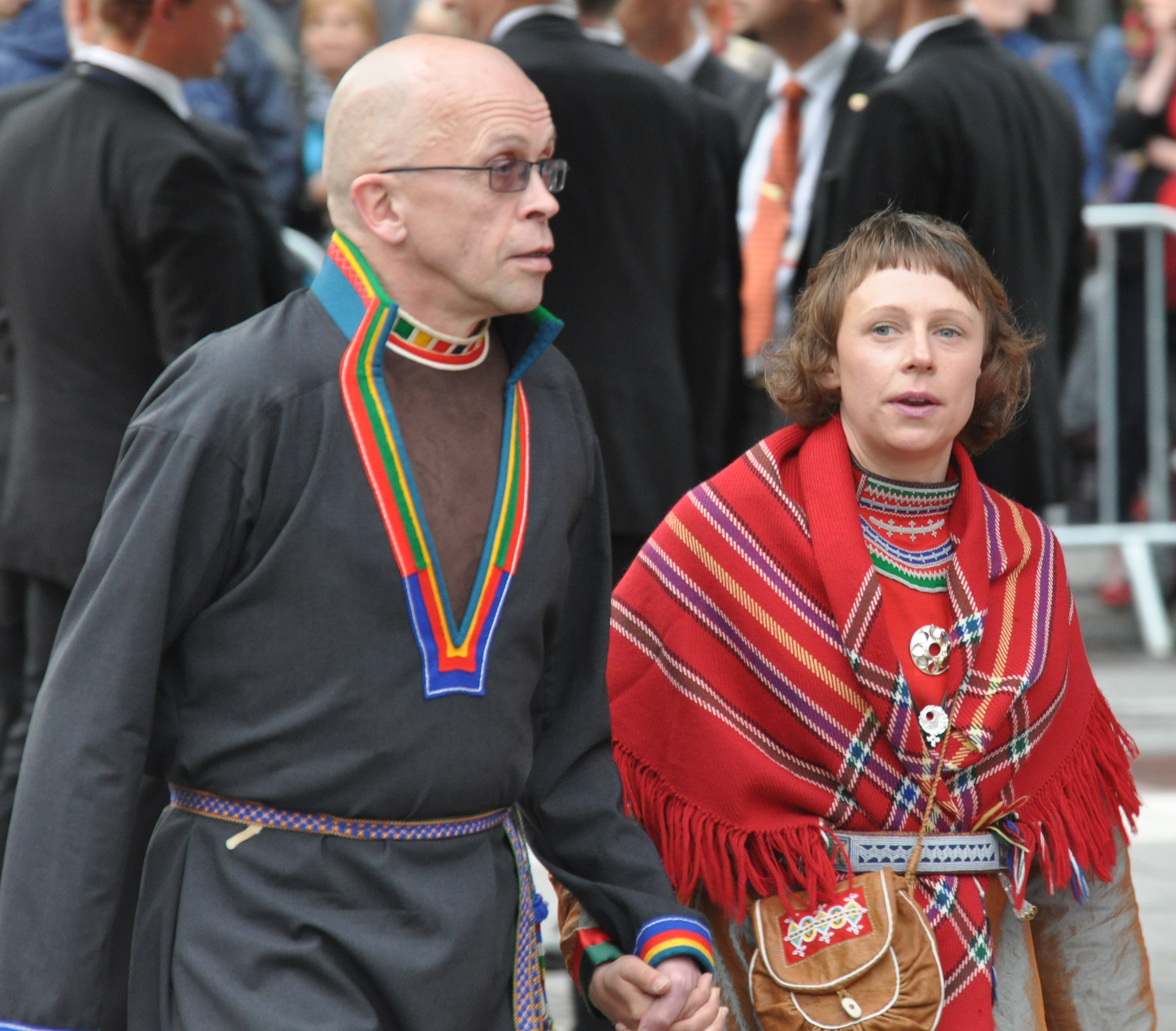 Wedding of Victoria, Crown Princess of Sweden, and Daniel Westling; Arrival of members for the Gouvernment and Swedish and foreign guests of hounour to the Riksdag's Gala Performance at Konserthuset: Stefan Mikaelssoon, Speaker of the Sami Parliament of Sweden, and Ms Sara Larsson